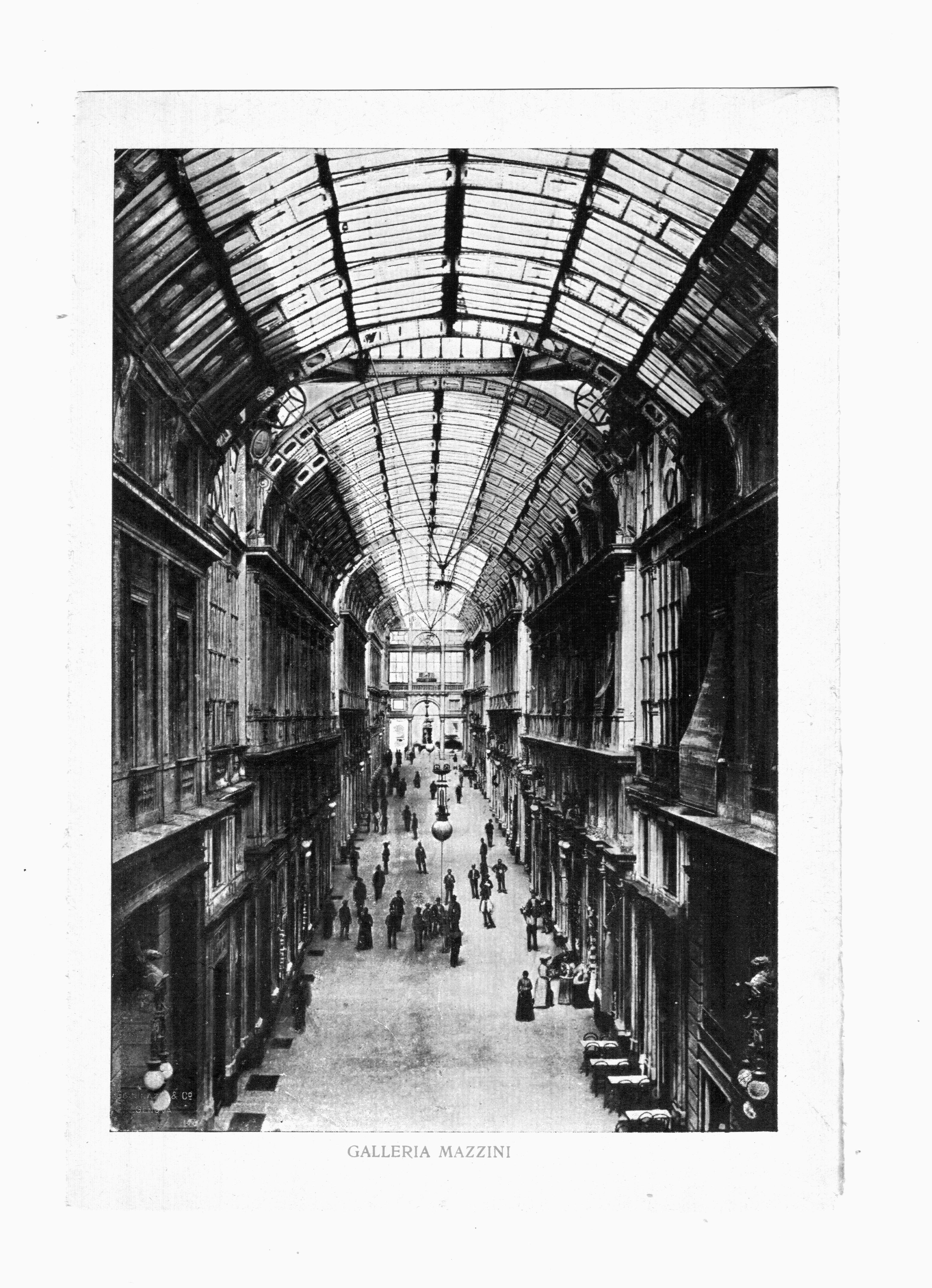 Historical image of Galleria Mazzini (Genoa)